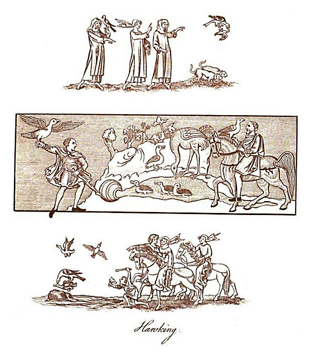 Three panels depicting Hawking in England from various time periods. The middle panel is from a Saxon manuscript dated to late 900s - early 1000s, as of 1801 held in the "Cotton Library," showing a Saxon nobleman and his falconer, with their hawks upon the banks of a river, waiting for the rise of the game. The top and bottom panels are drawings from a manuscript held, as of 1801, in the "Royal Library" dating from early 1300s showing parties of both sexes hawking by the waterside; the falconer is frightening the fowl to make them rise and the and the hawk is in the act of seizing upon one of them.